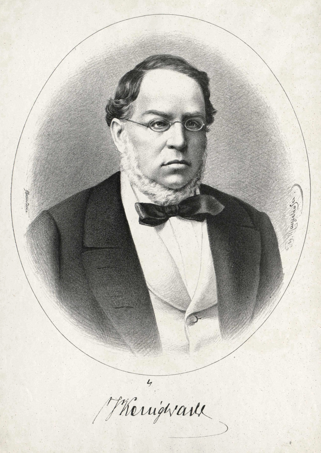 Jonas Freiherr von Königswarter (1807-1871), Viennese banker, director of the National Bank of Austria and president of the Jewish Community of Vienna.